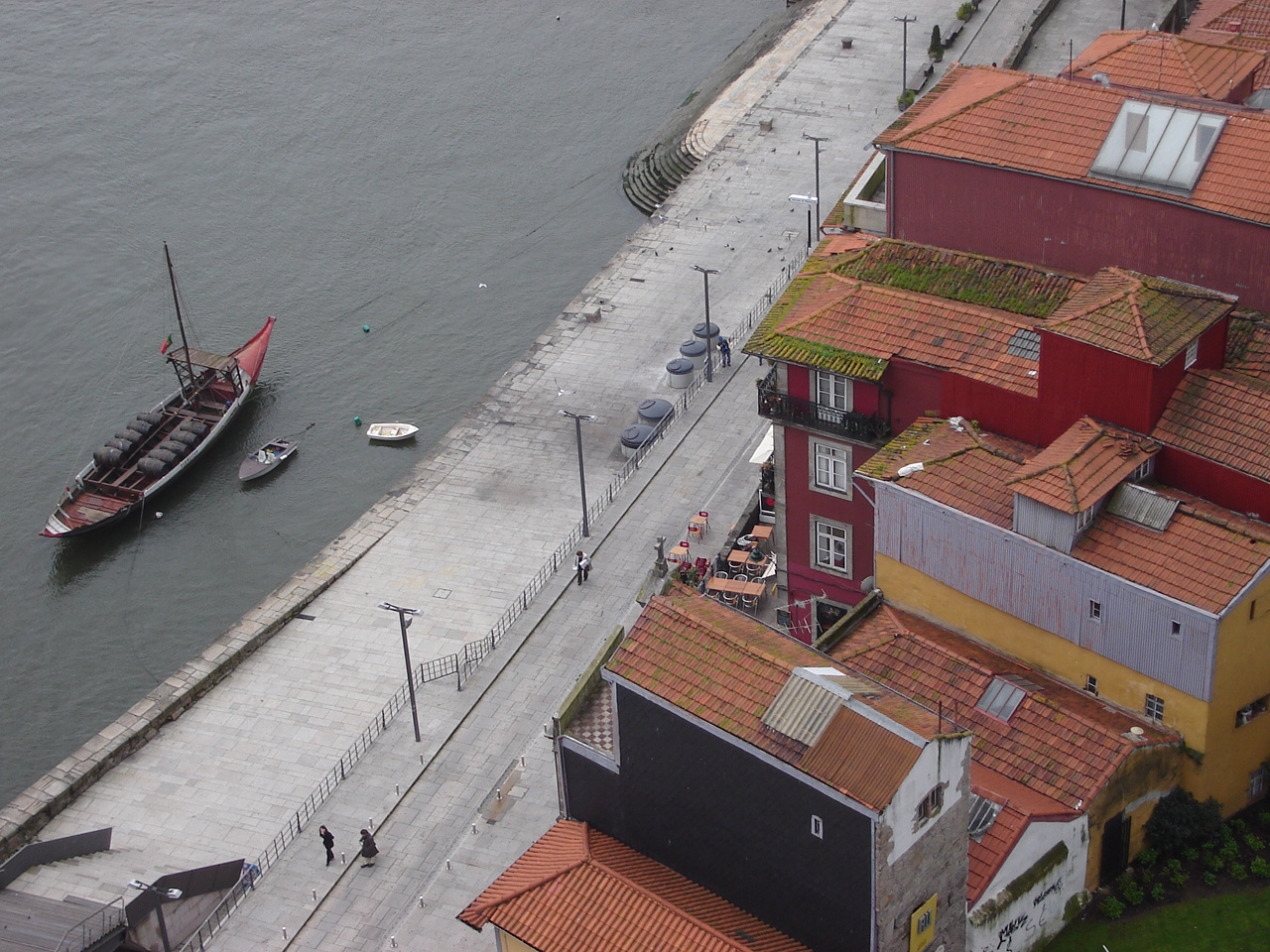 A view from Dom Luis I Bridge